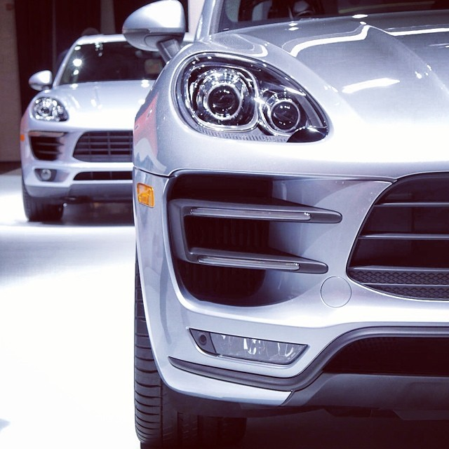 Front picture of Porsche Macan Turbo, with Porsche Macan S in background. Taken at the North American International Auto Show and published by .